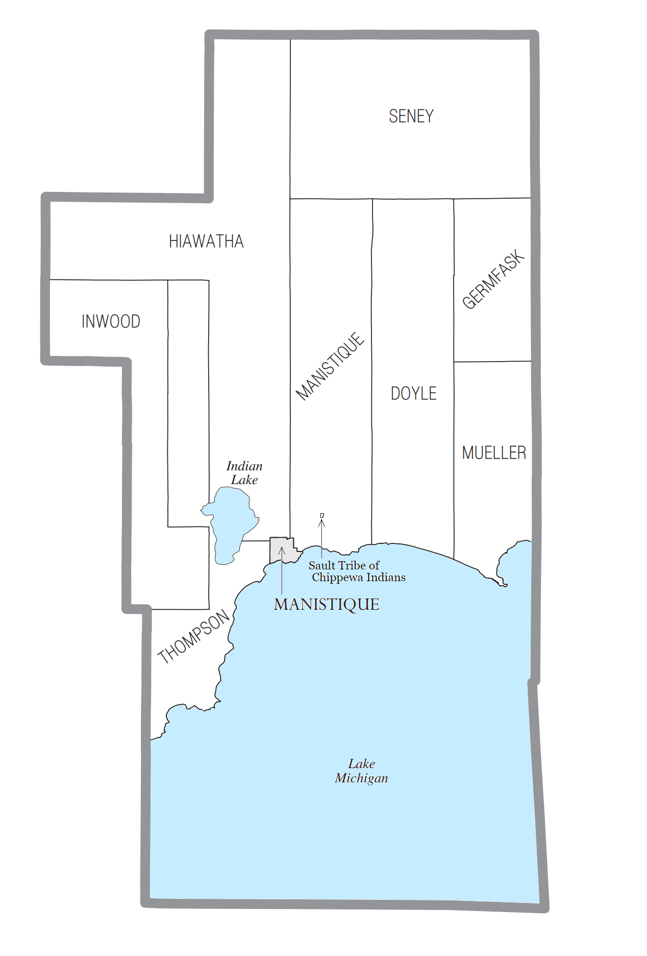 Schoolcraft County, MI census data map